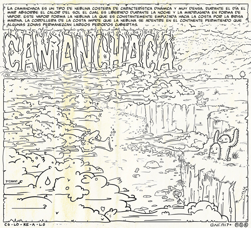 Camanchaca